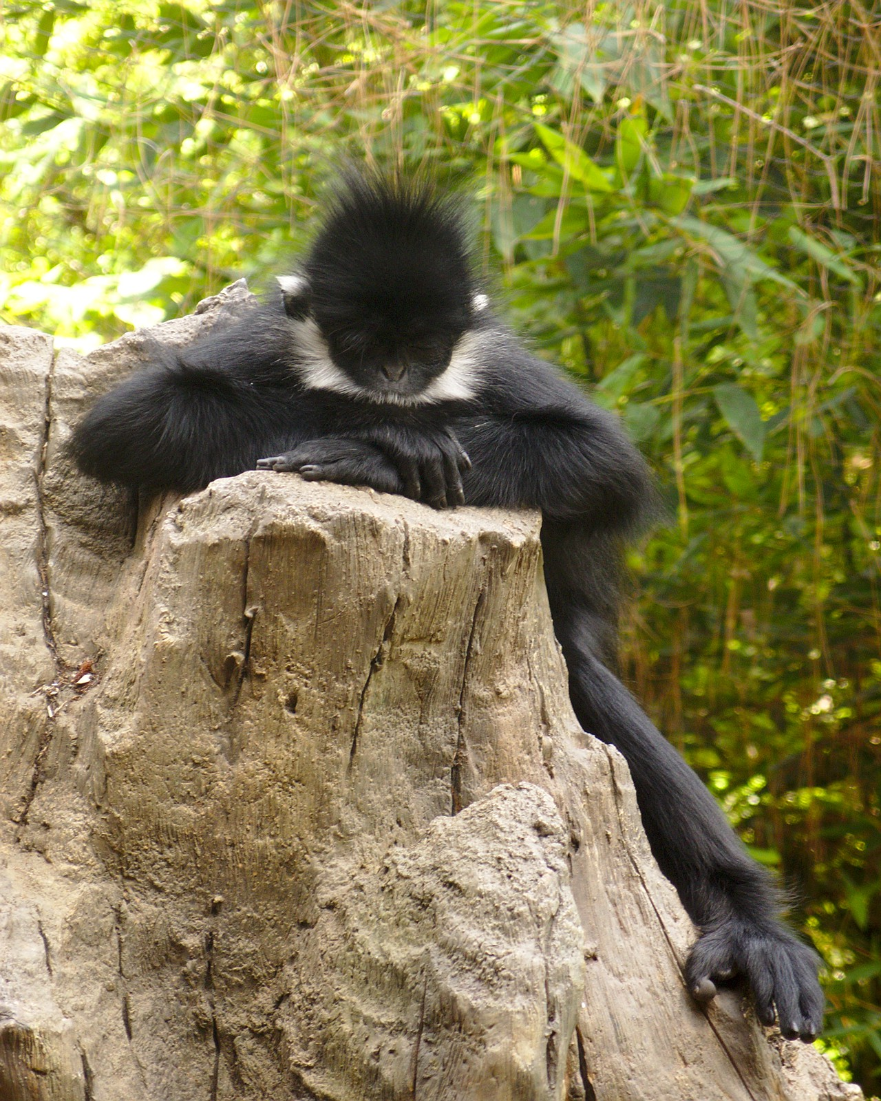 François' langur (Trachypithecus Francoisi) relaxing on a stump at the Los Angeles Zoo.